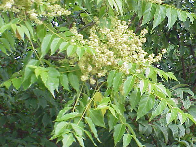 Species: Ailanthus altissima Family: Simaroubaceae Image No. 5